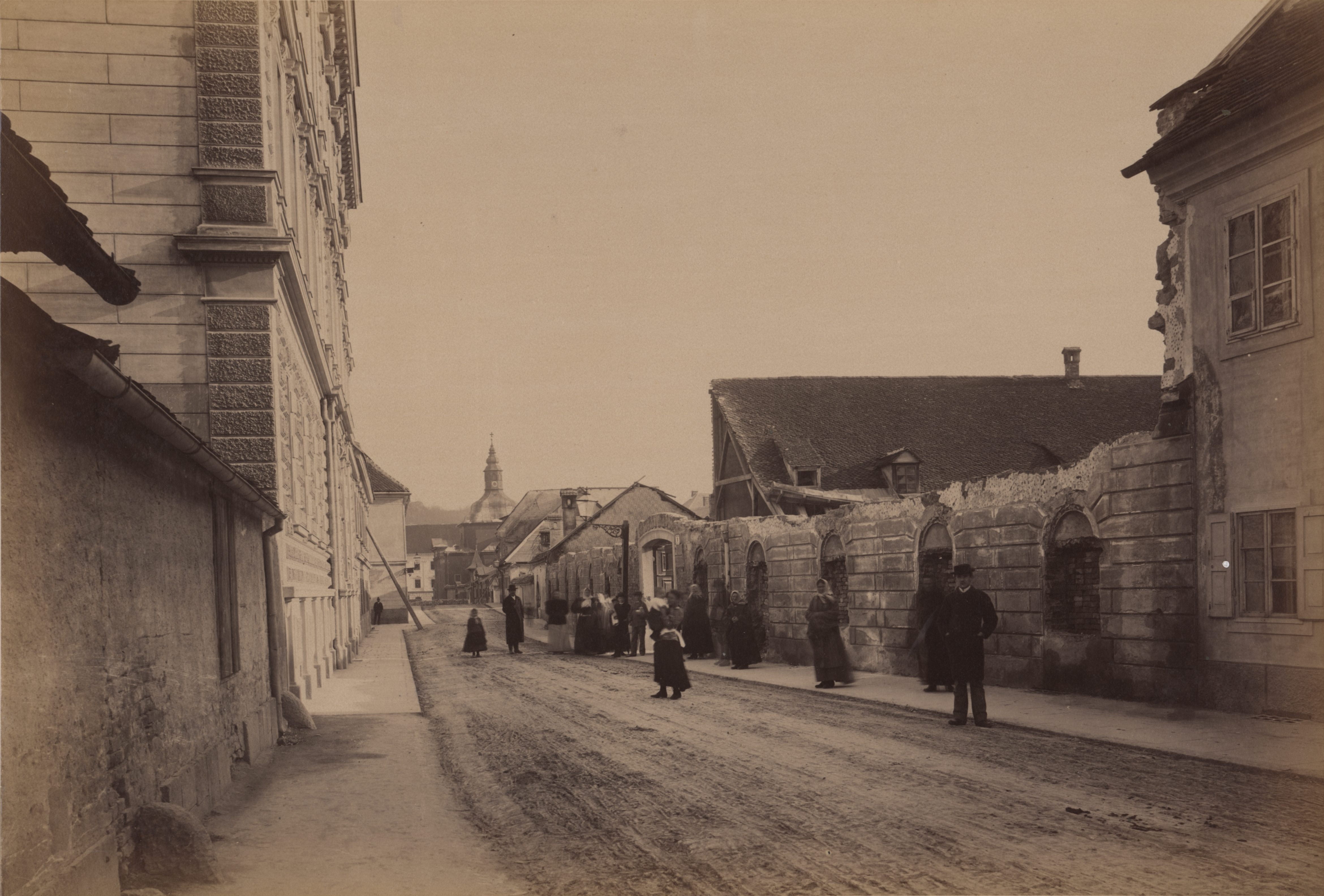 1895 Ljubljana earthquake by Helfer